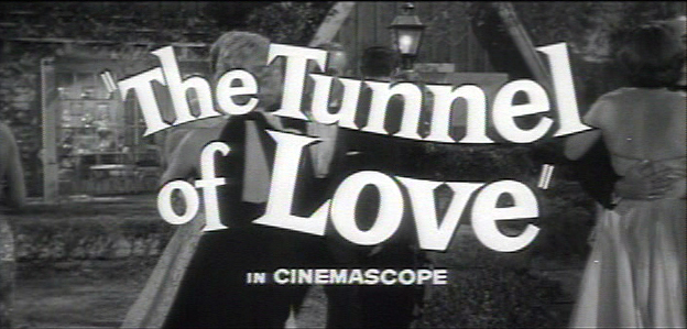 Cropped screenshot of the film title from the trailer for the film The Tunnel of Love.